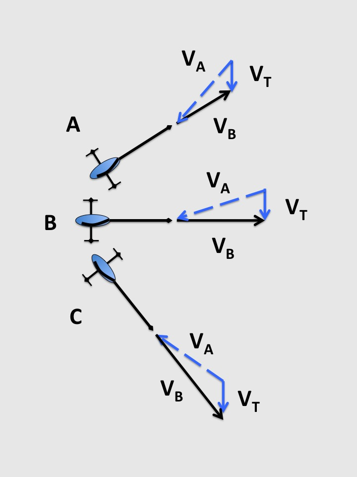 iceoat A is close hauled. Iceoat B is on a beam reach.Iceboat C is on a broad reach. VT = True wind speed VB = Boat speed VA = Apparent wind speed FT = Force on sail tangential to sail cord (lift component) FR = Driving force component FLAT = Lateral component Note that as the iceboat sails further from the wind, the apparent wind becomes increases slightly and the boat speed is highest on the broad reach. Source: P, 47 Title Physics of Sailing Author John Kimball Edition illustrated Publisher CRC Press, 2009 ISBN 142007377X, 9781420073775 Length 296 pages